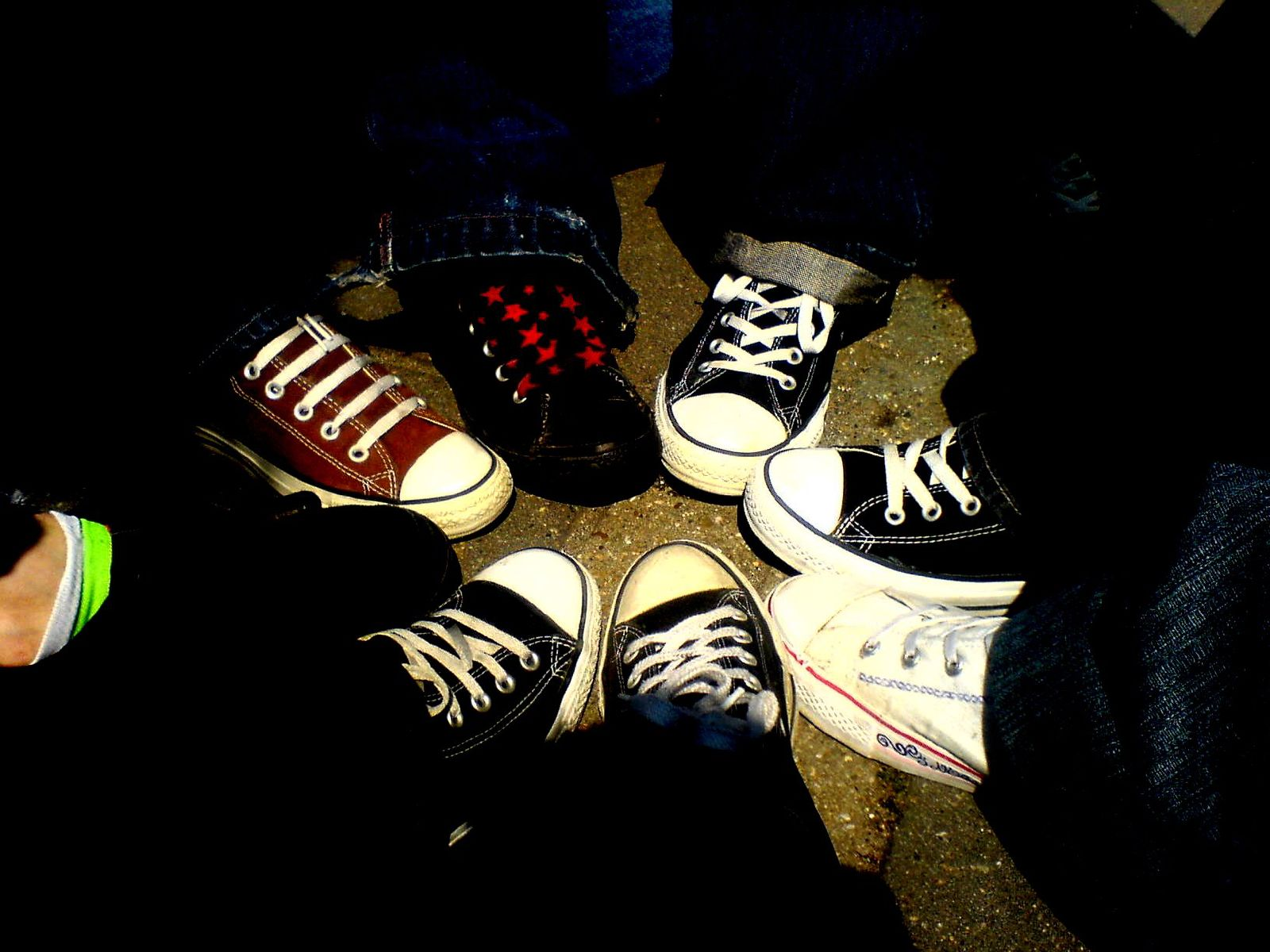 Emo looking shoes